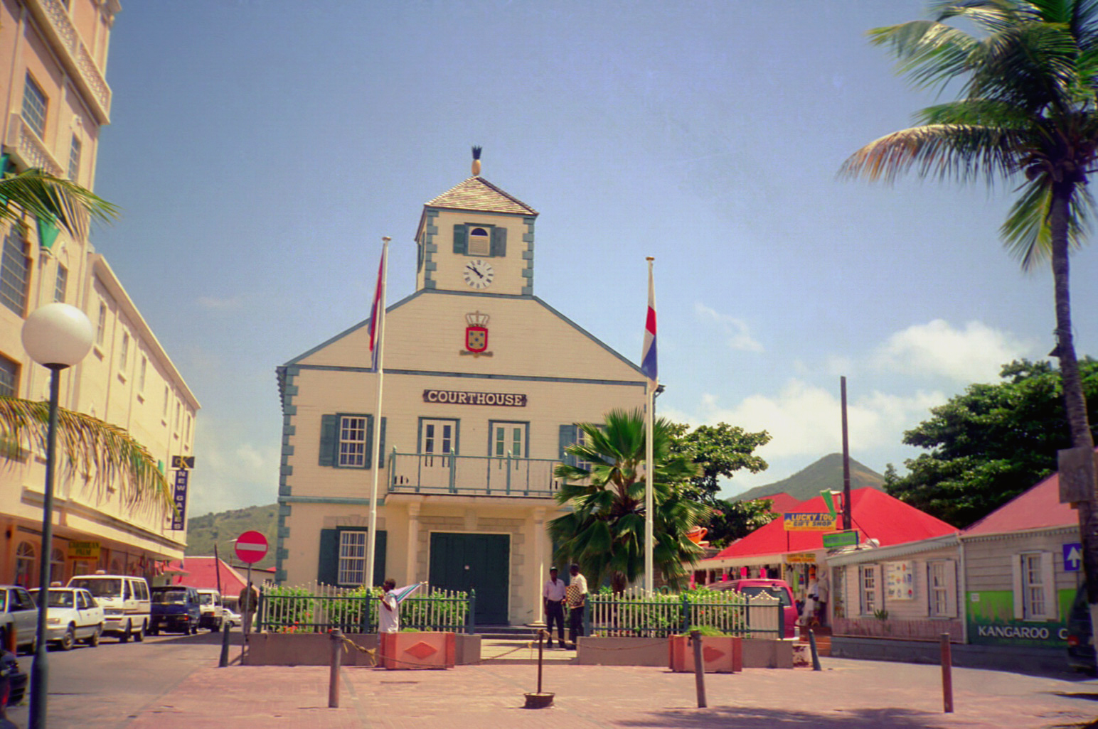 Court House in Philipsburg, San Martin.